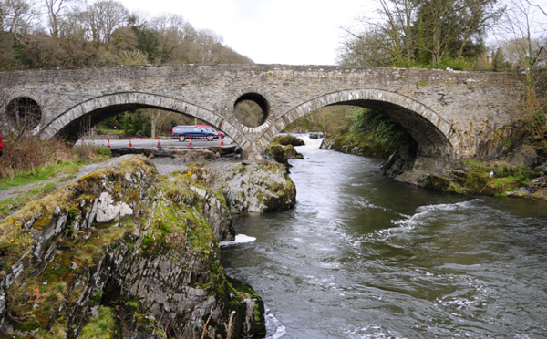 Cenarth Bridge Cenarth Bridge looking East from the North Bank